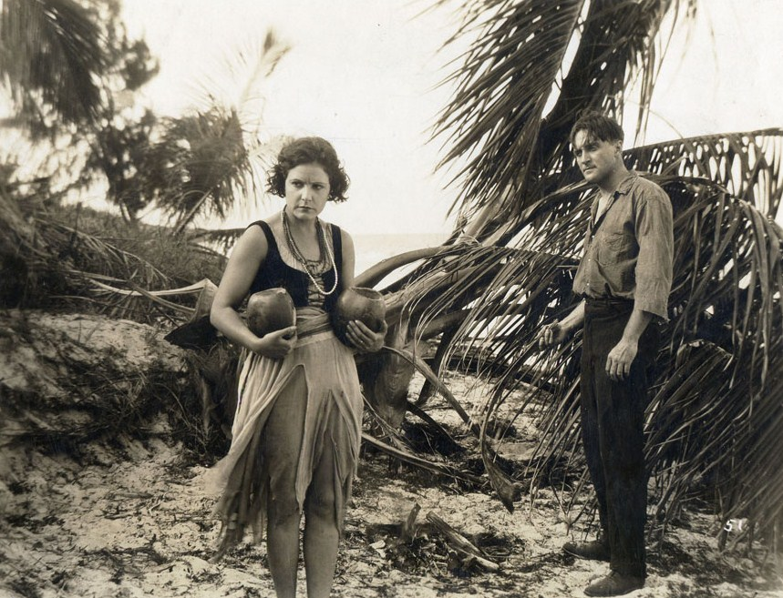 Norma Talmadge and Wyndham Standing in The Isle of Conquest (1919) - original image cropped (see source).